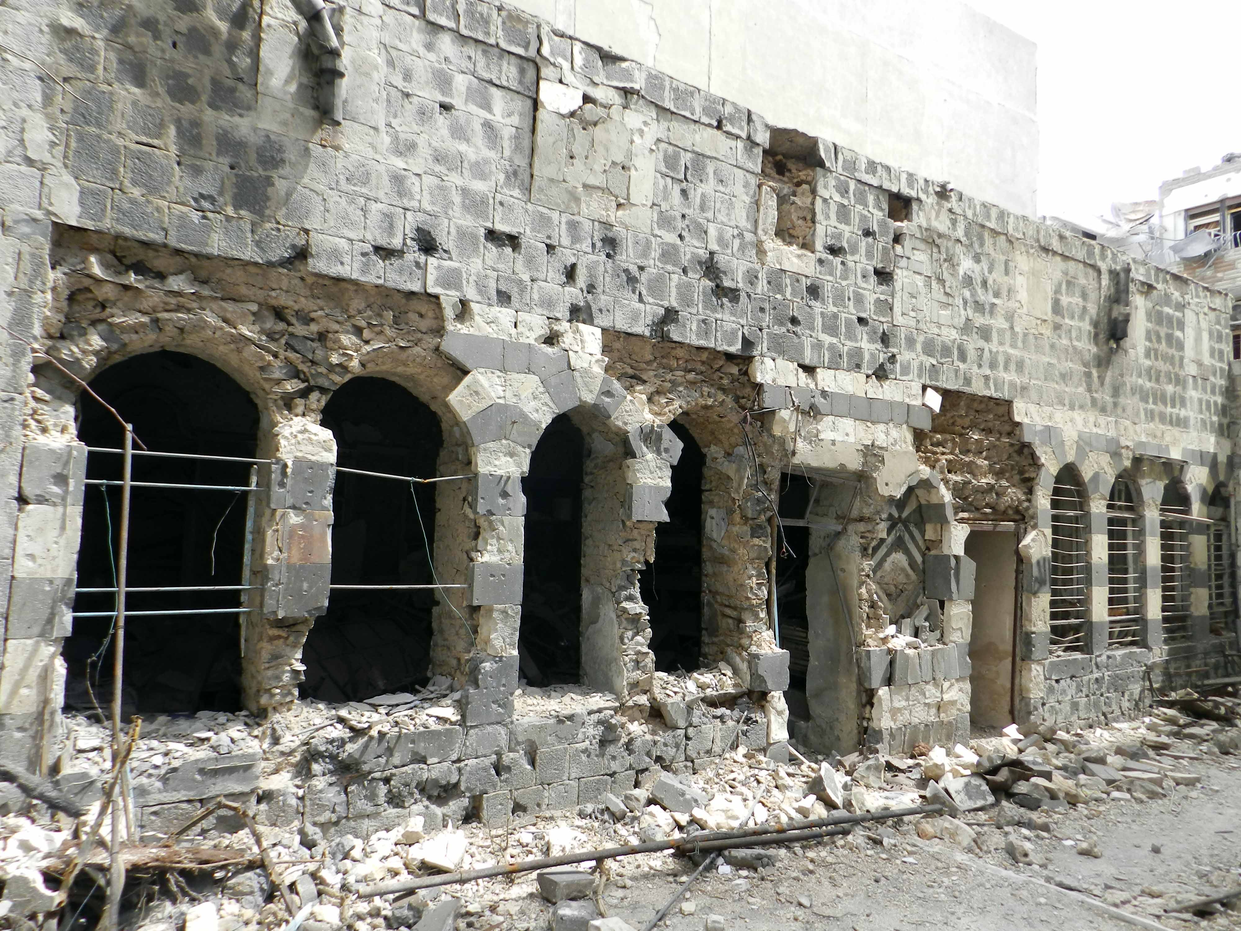 Destruction in the Bab Dreeb area of Homs, Syria (2012).